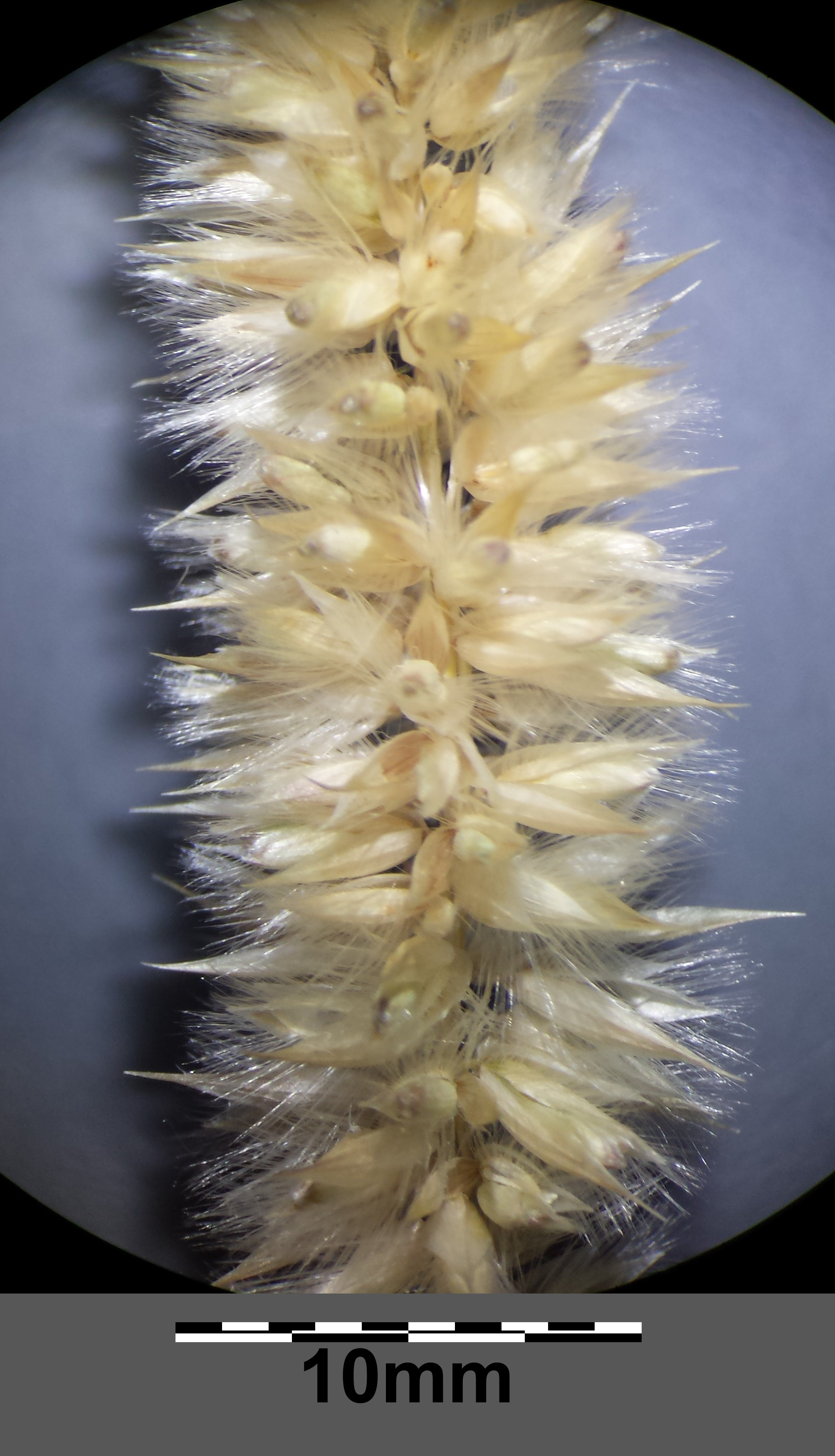 Panicle (detail) Taxonym: Melica transsilvanica (subsp. transsilvanica) ss Fischer et al. EfÖLS 2008 ISBN 978-3-85474-187-9 Location: Würfelberg near Bergau, district Hollabrunn, Lower Austria - ca. 275 m a.s.l. Habitat: semi-dry grassland